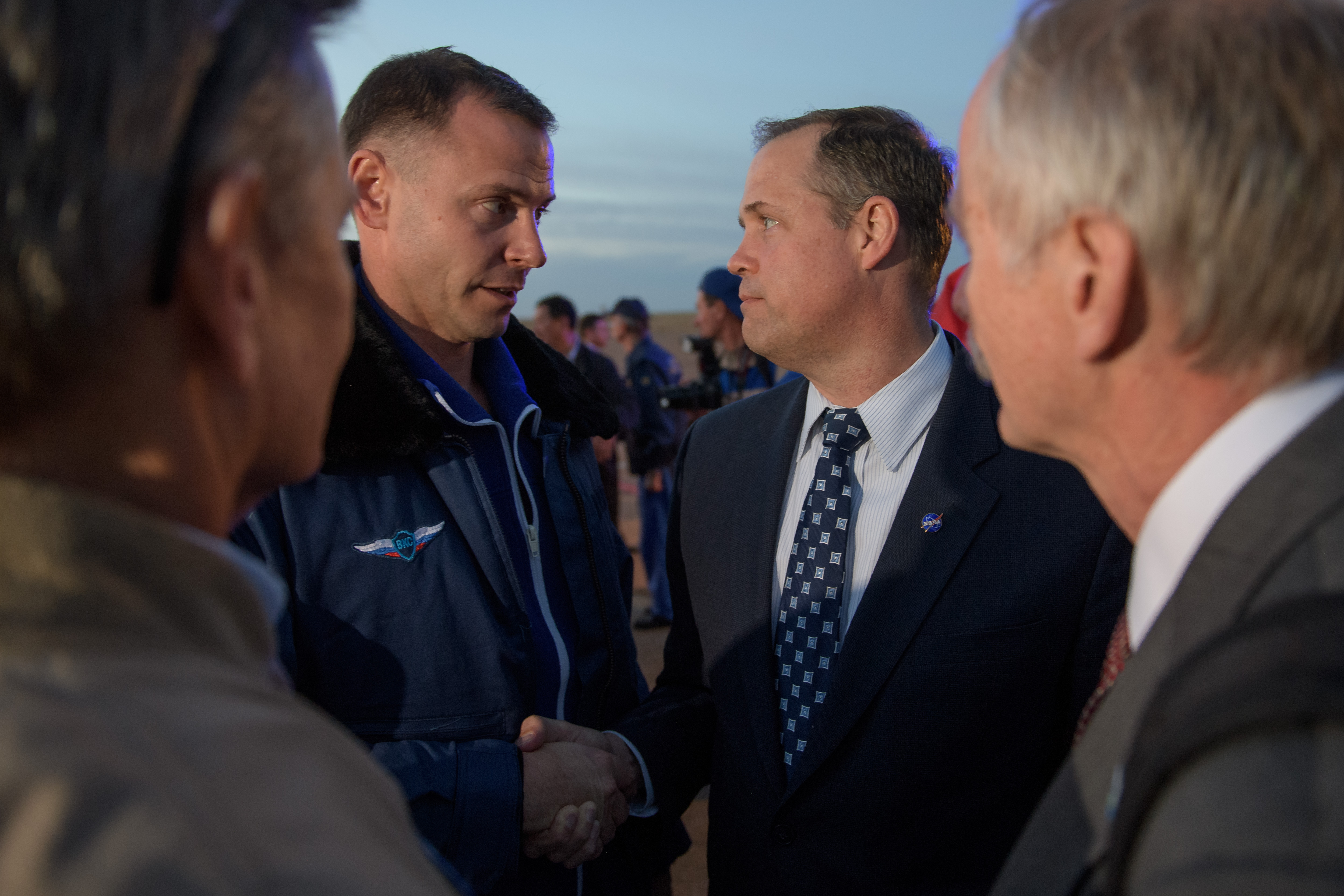 Expedition 57 Flight Engineer Nick Hague of NASA, left, is welcomed by NASA Administrator Jim Bridenstine after Hague landed at the Krayniy Airport with Expedition 57 Flight Engineer Alexey Ovchinin of Roscosmos, Thursday, Oct. 11, 2018 in Baikonur, Kazakhstan. Hague and Ovchinin arrived from Zhezkazgan after Russian Search and Rescue teams brought them from the Soyuz landing site. During the Soyuz MS-10 spacecraft's climb to orbit, an anomaly occurred, resulting in an abort downrange. The crew was quickly recovered and is in good condition.